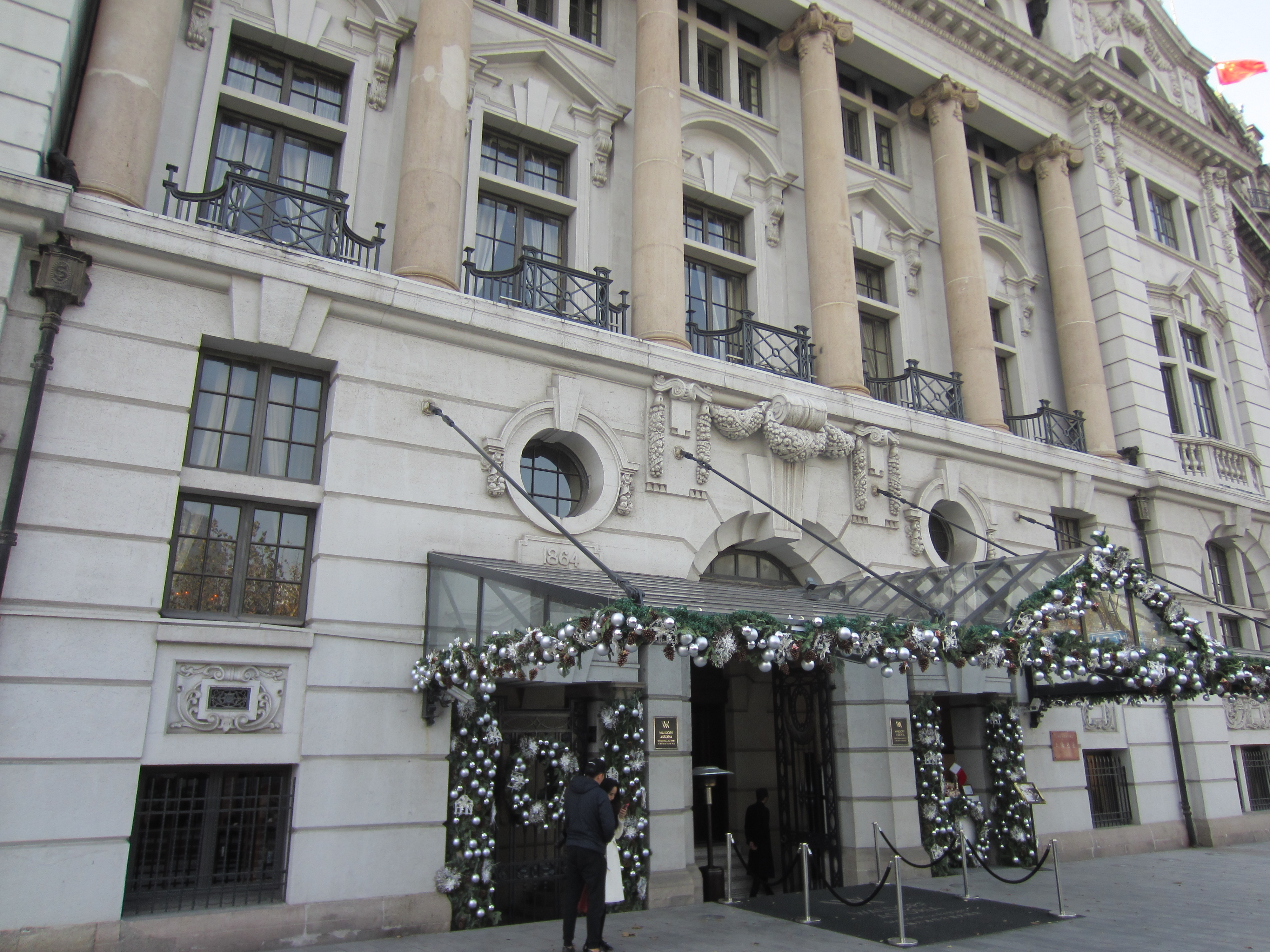 The Waldorf-Astoria Hotel on the Bund, in Shanghai, China, in the former Shanghai Club building.